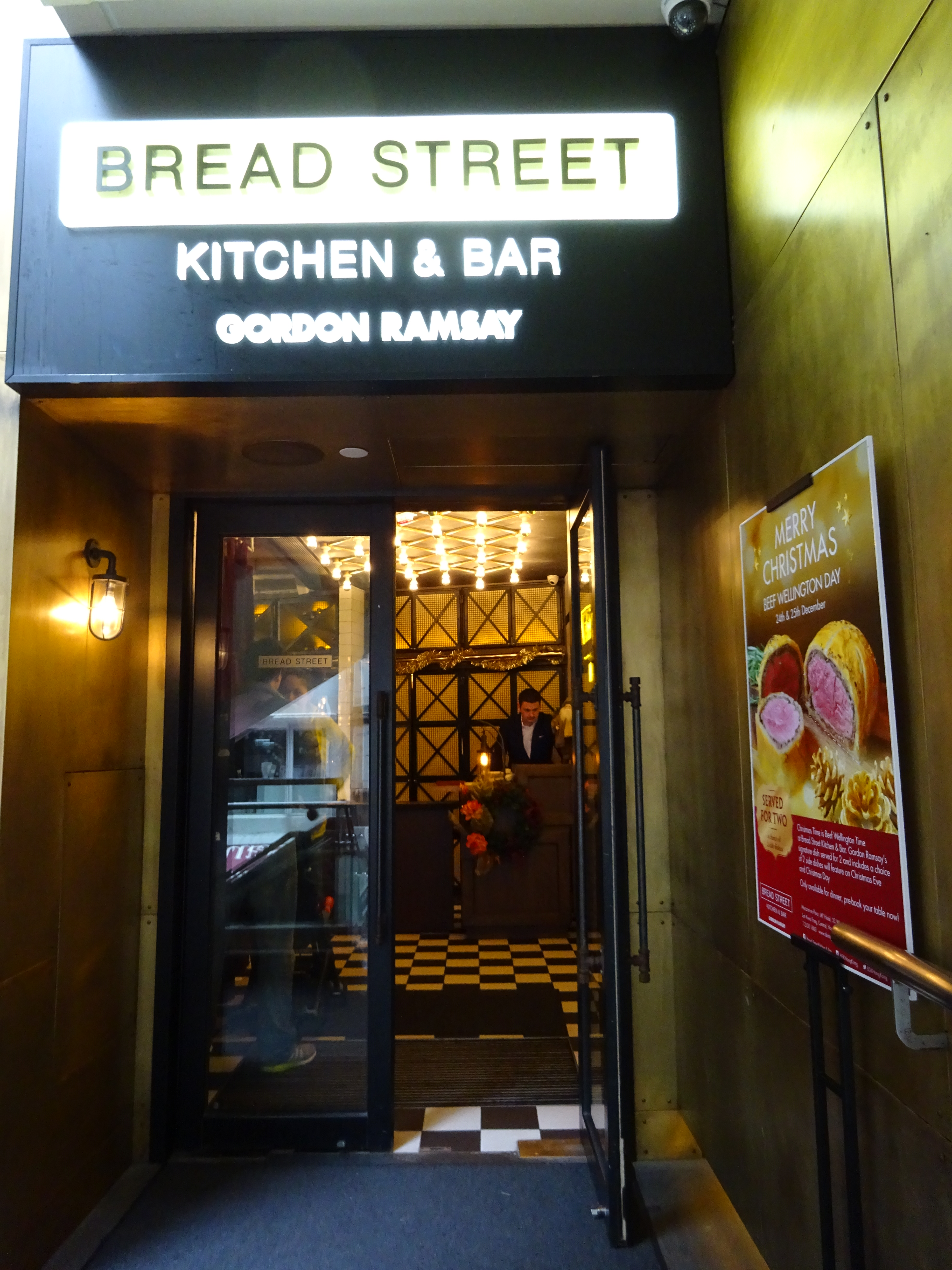 D'Aguilar Street, Lan Kwai Fong, Central, Hong Kong